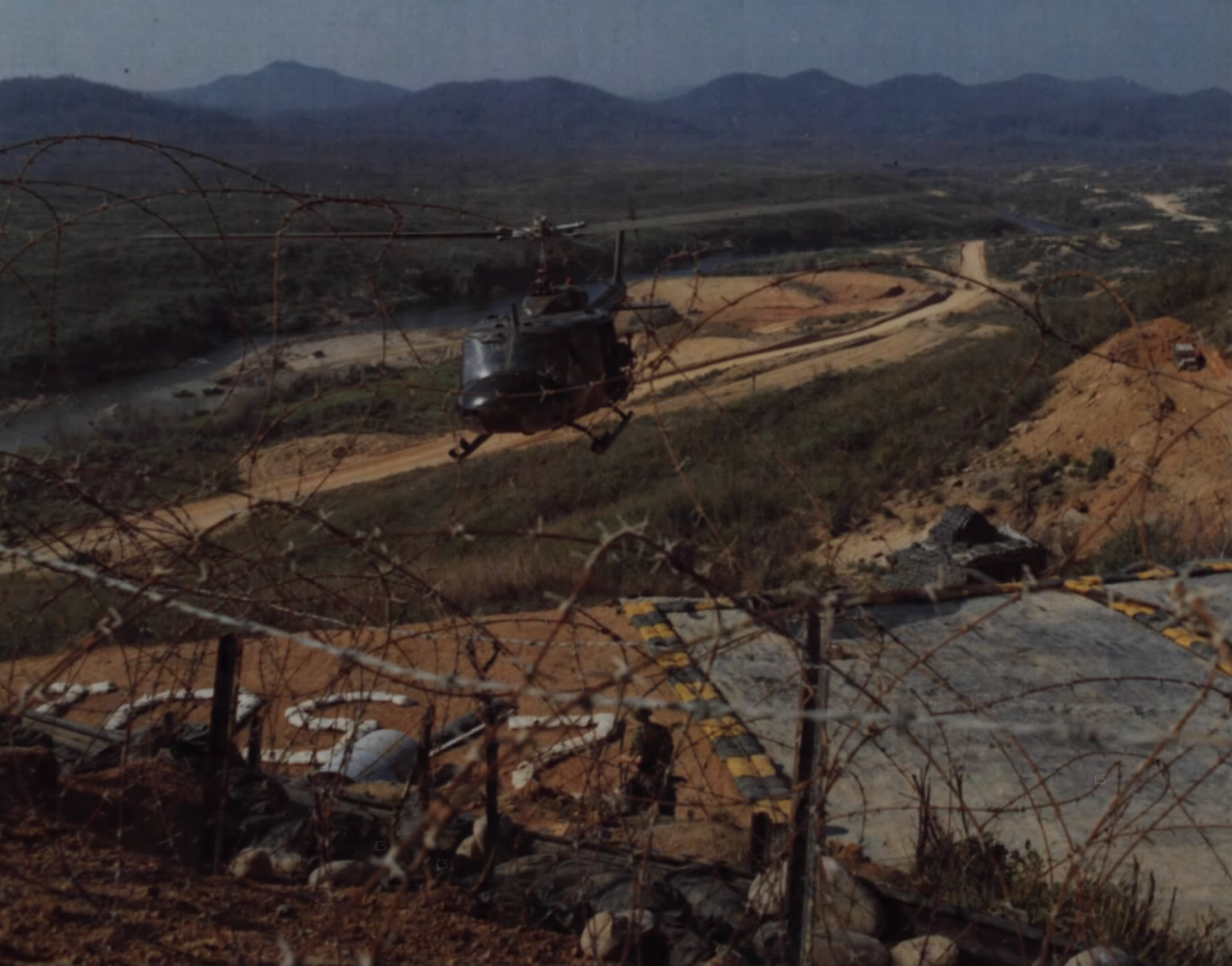 A UH-1D helicopter prepares to land at Fire Support Base Birmingham with supplies for members of Company A, 2nd Battalion, 501st Infantry, 2nd Brigade, 101st Airborne Division (Airmobile), on Hill 549, located approximately 15 km southwest of Hue.